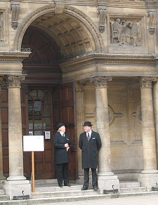 A pair of "Bulldogs" of the University of Oxford in the porch of the Examination Schools in High Street, Oxford. They were on on duty when a Convocation was being held to elect a new Professor of Poetry.